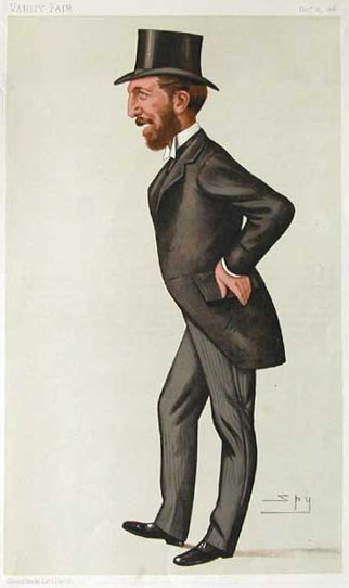 Caricature of John O'Connor Power. Caption reads the brains of Obstruction.